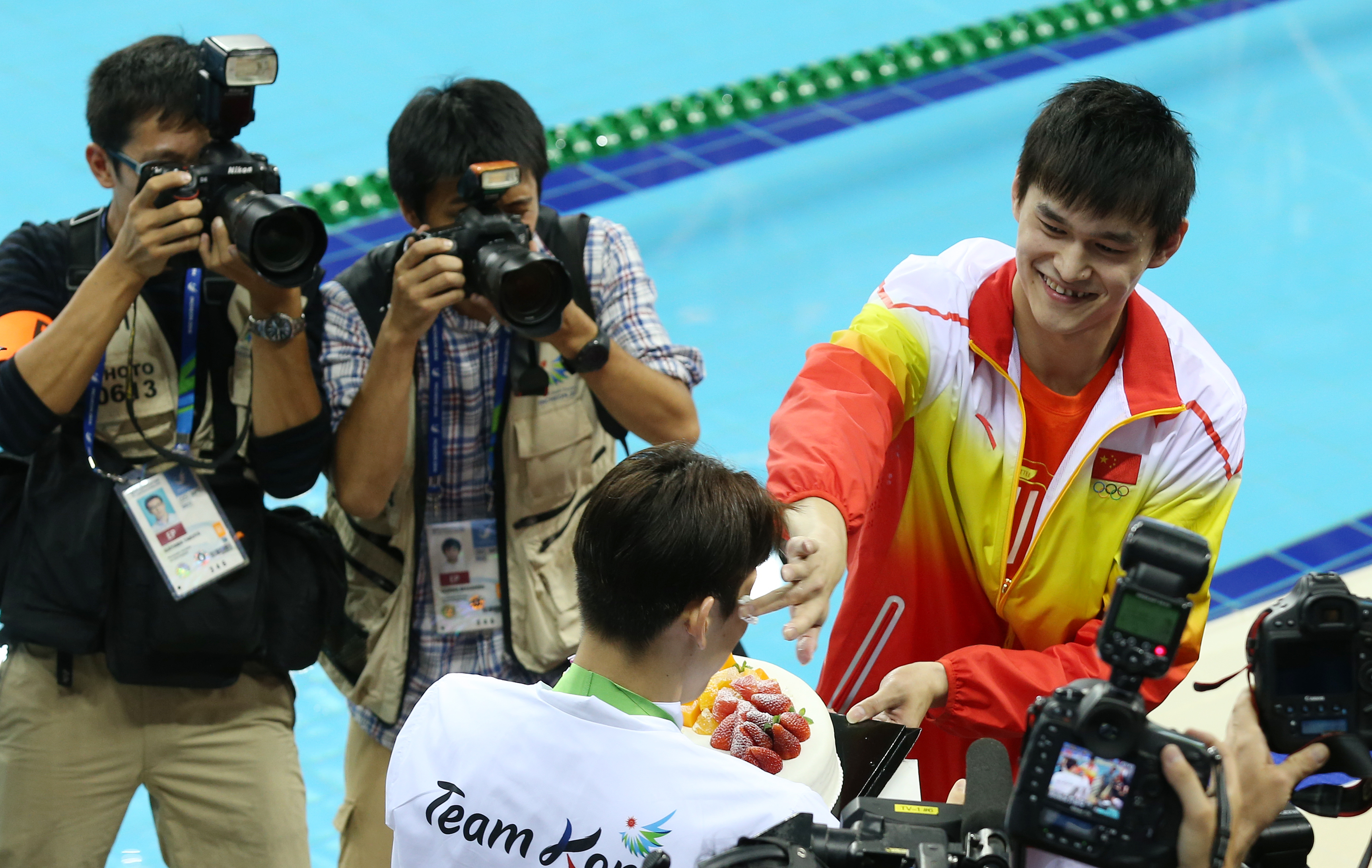 Incheon Asian Games 2014